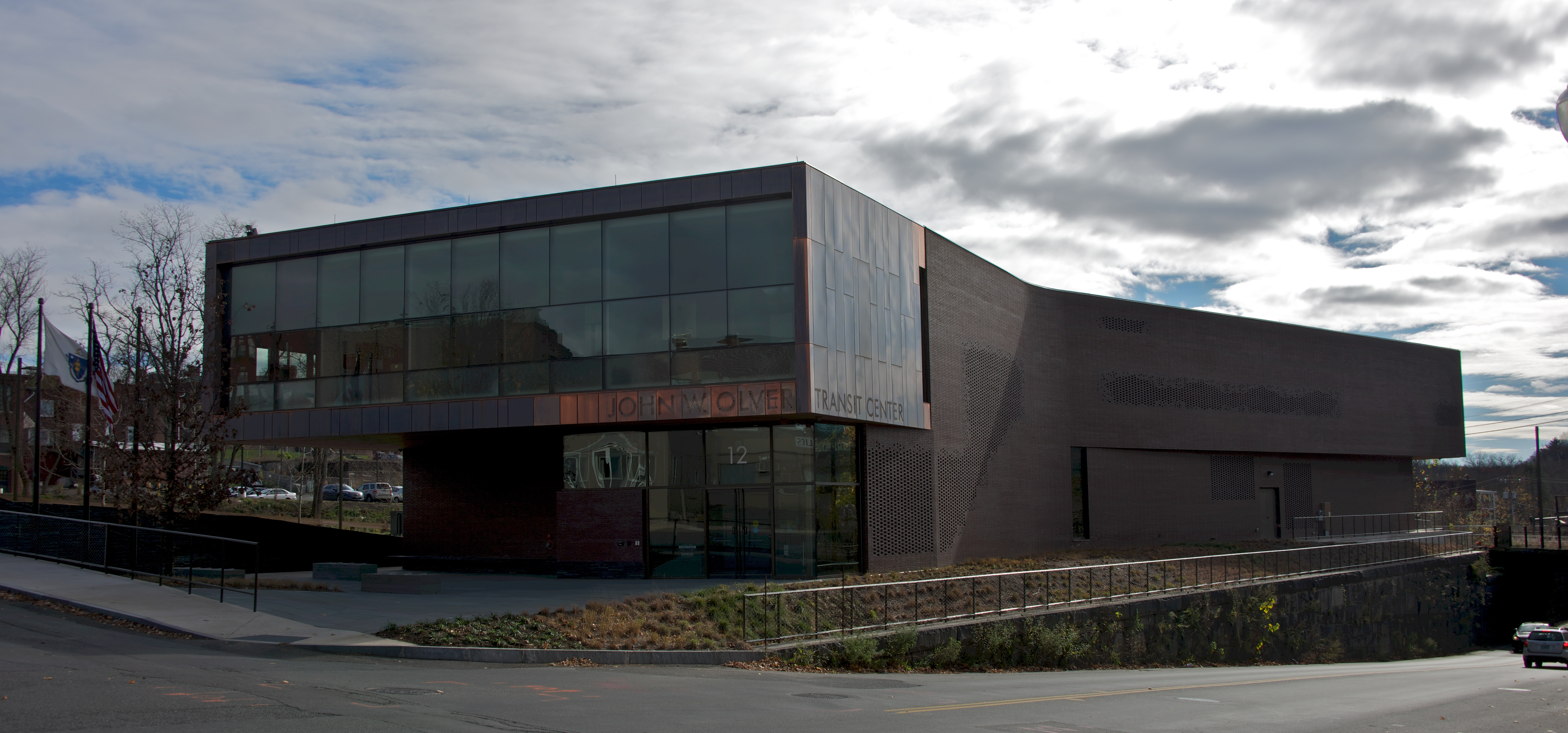 Photo of the exterior of the John W. Olver Transit Center in Greenfield, Massachusetts, USA.